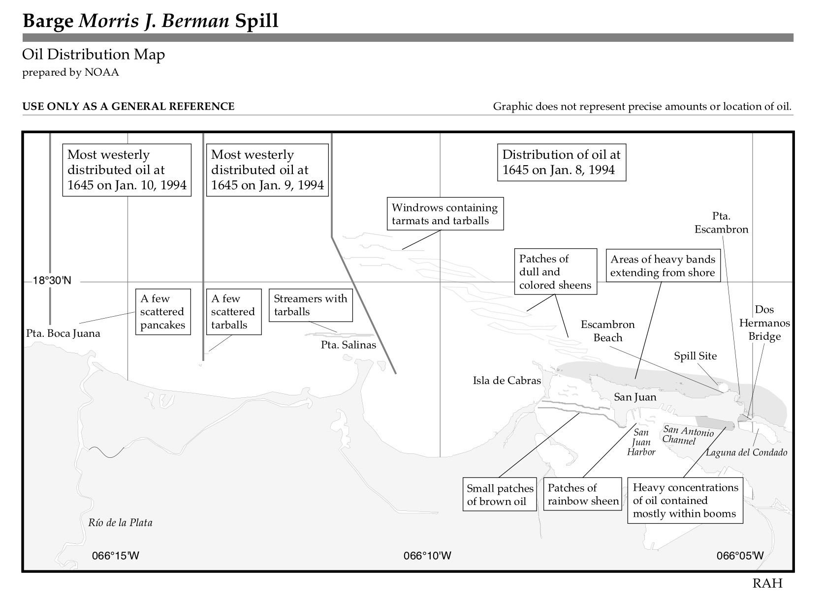 Morris J. Berman oil spill-Oil Distribution Map